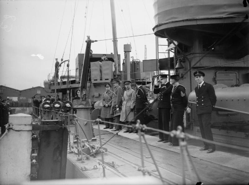 IWM caption : HM King George VI visits the BEF, December 1939: The King on board the destroyer HMS CODRINGTON at Boulogne, returning to Britain after visiting the BEF.